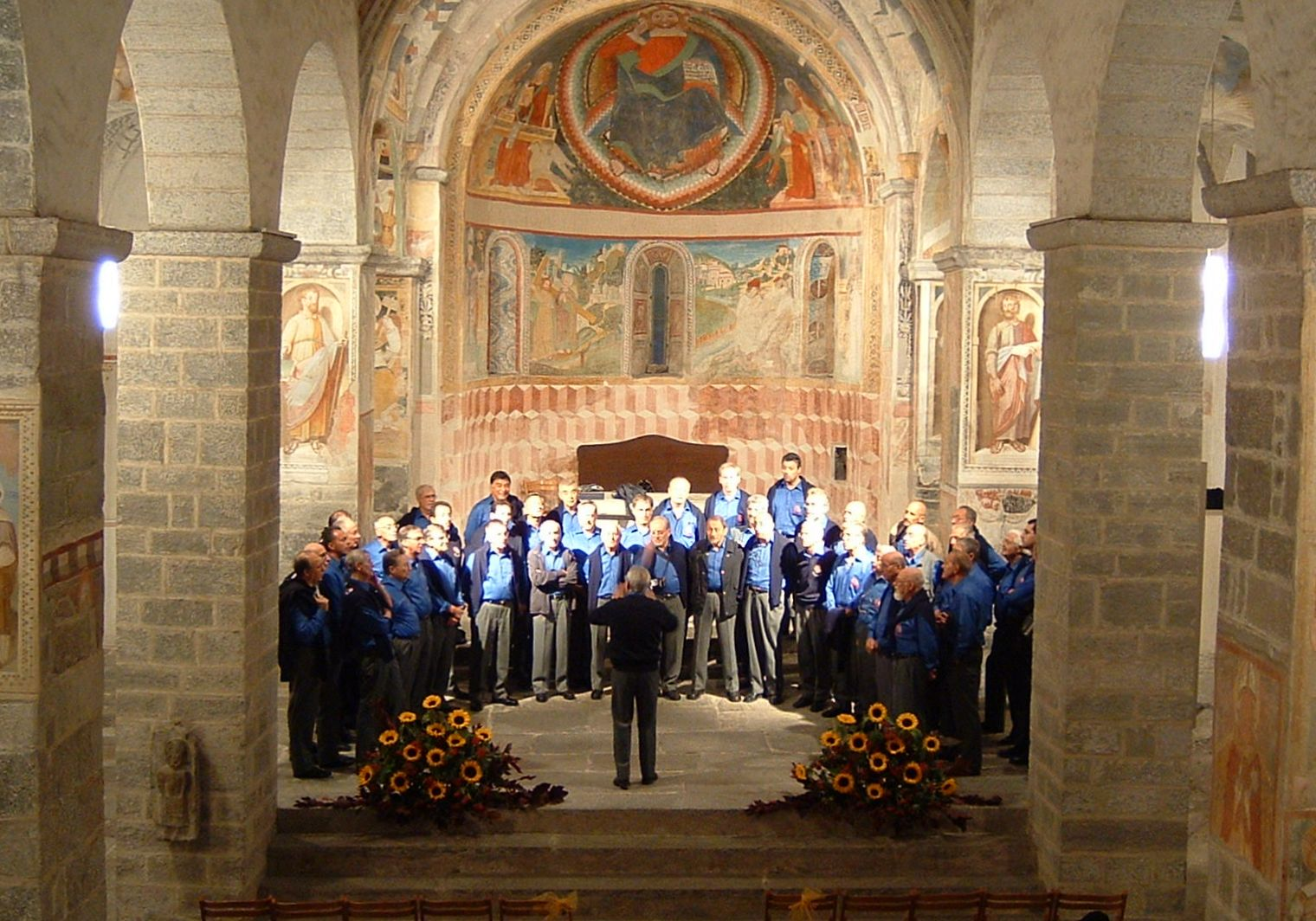 the male choir "la martinella" rehearsing before a concert in biasca (switzerland)